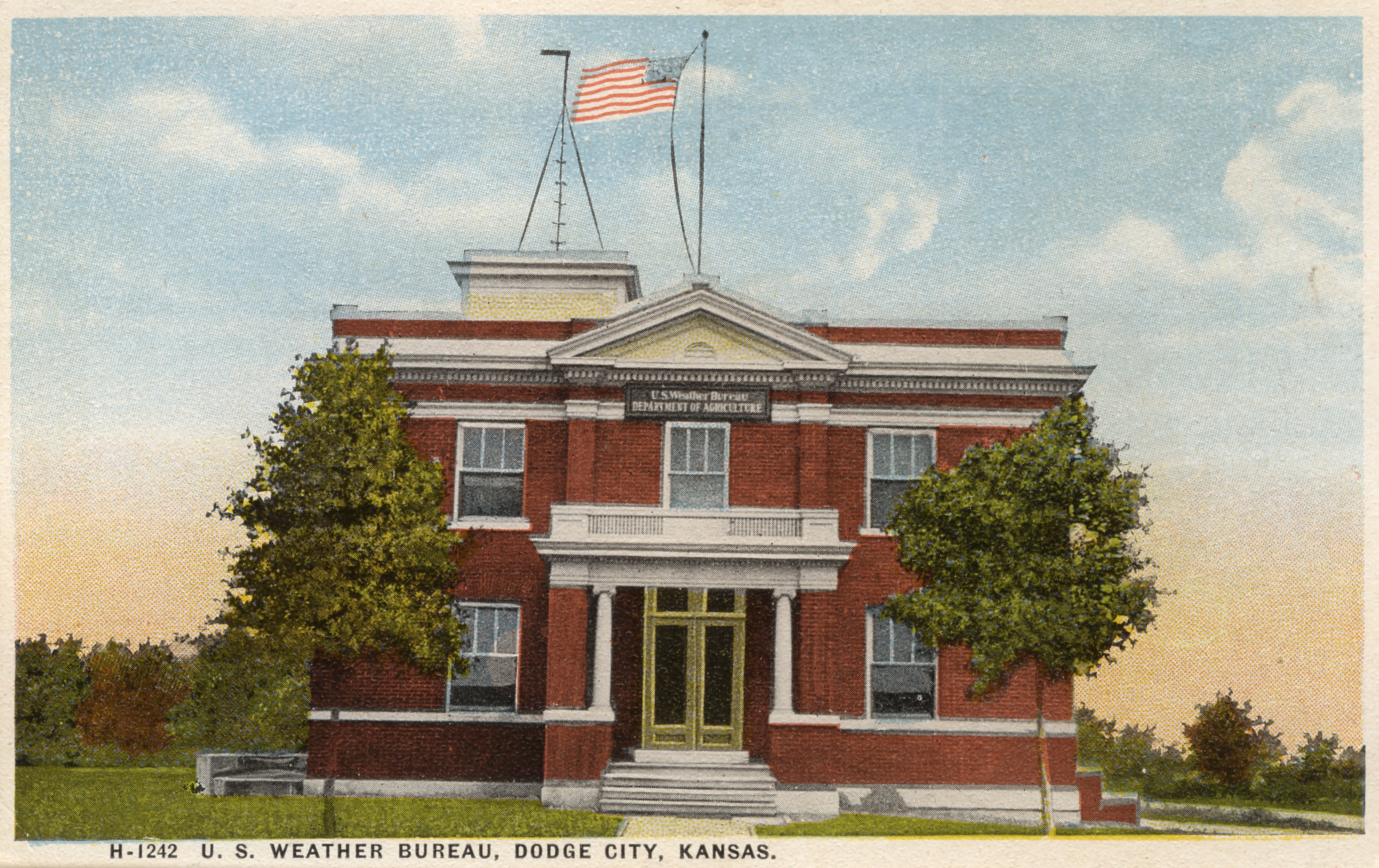 Postcard of the U.S. Weather Bureau Building at Dodge City, Kansas. 1900 Circa.